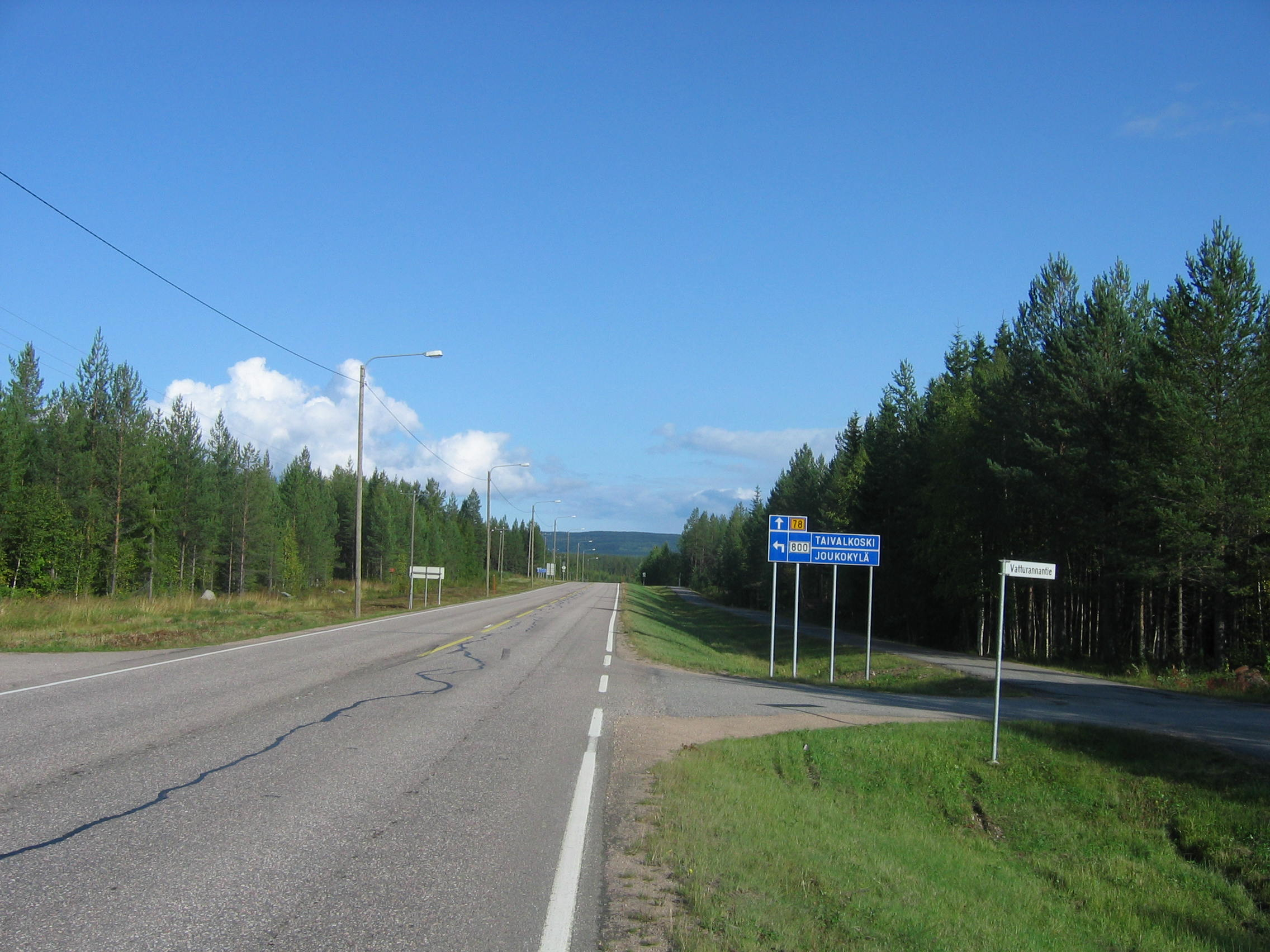 Main road 78 in Puolanka, Finland, towards the East.